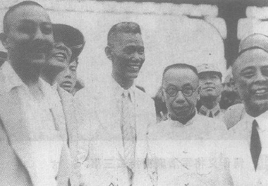 Cai Tingkai in Shanghai Railway Station, leaving for Fujian for fighting the Chinese Communists, 1932